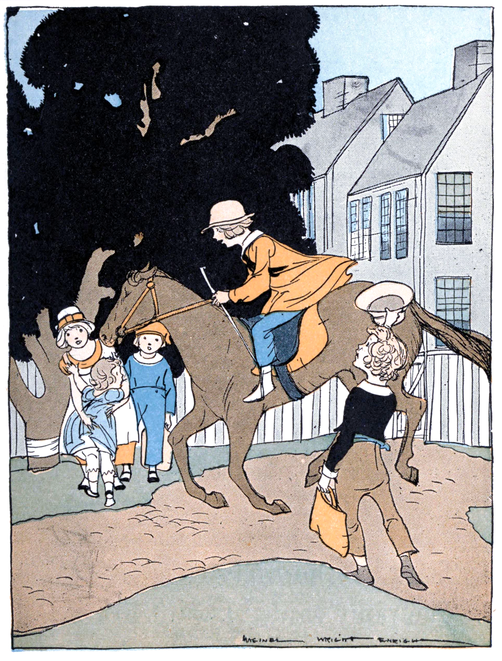 Child riding a pony, by illustrator Maginel Wright Enright